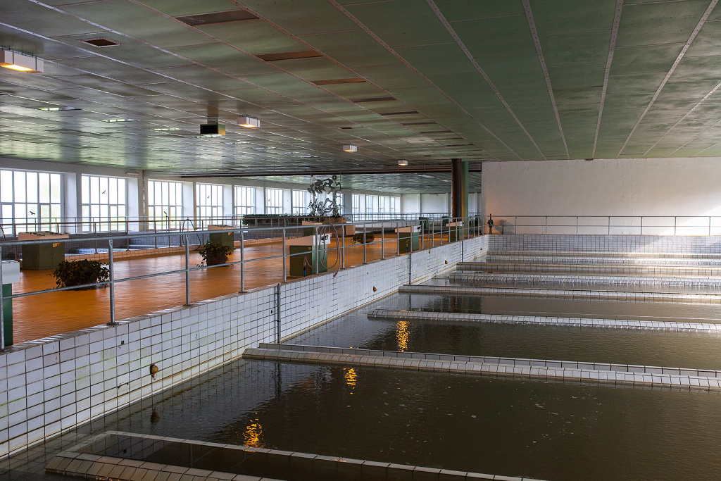 Úpravna vody Nová Ves u Frýdlantu nad Ostravicí - pískové filtry, autor: Boris Renner